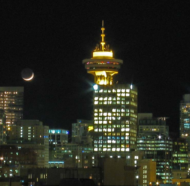 Harbour Centre, Vancouver, at night. Taken by me, 18 April 2007